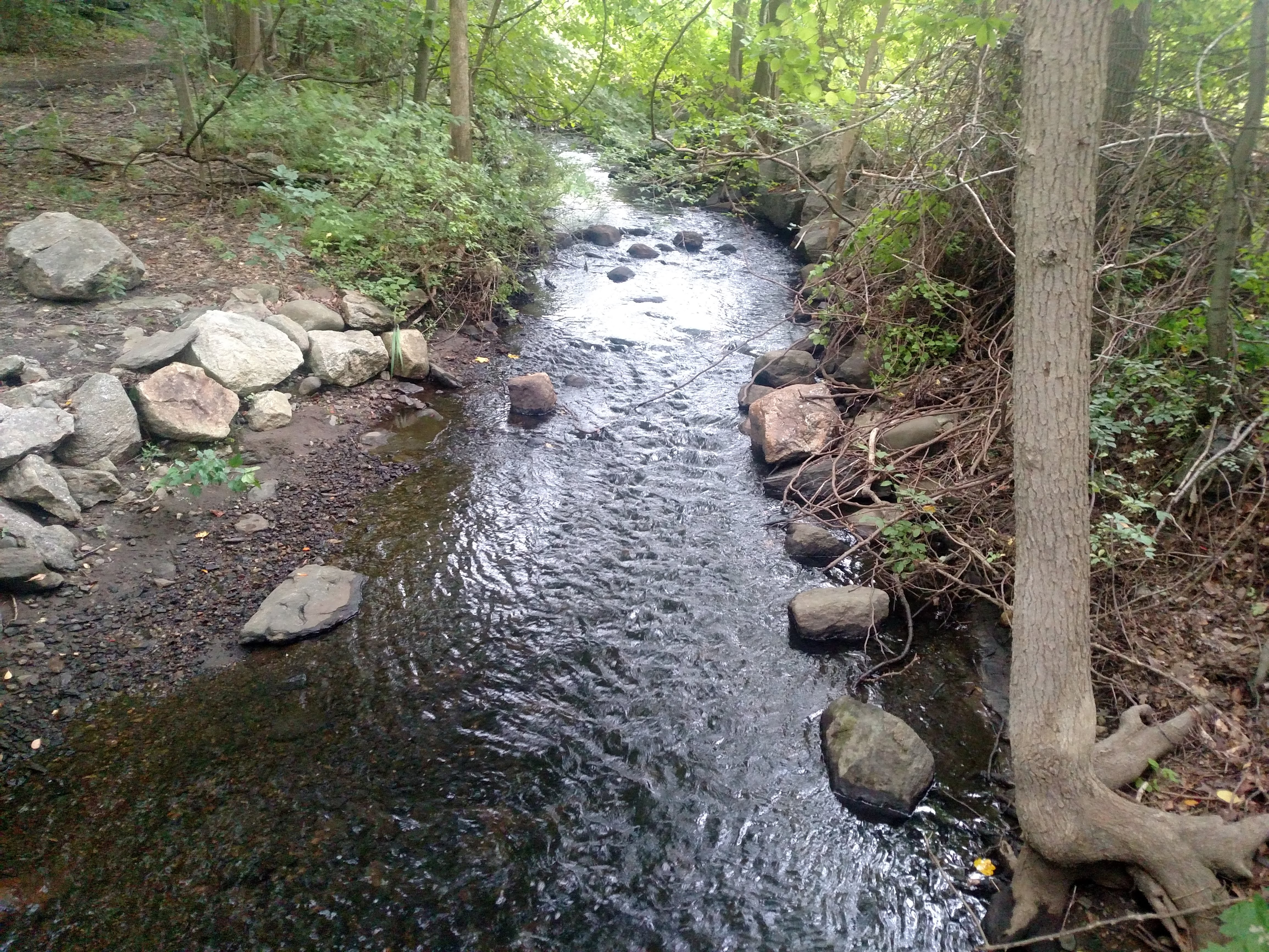 A section of the Hutchinson River that appears to be wild, just upstream from Reservoir #3 and downstream of Dam #1.